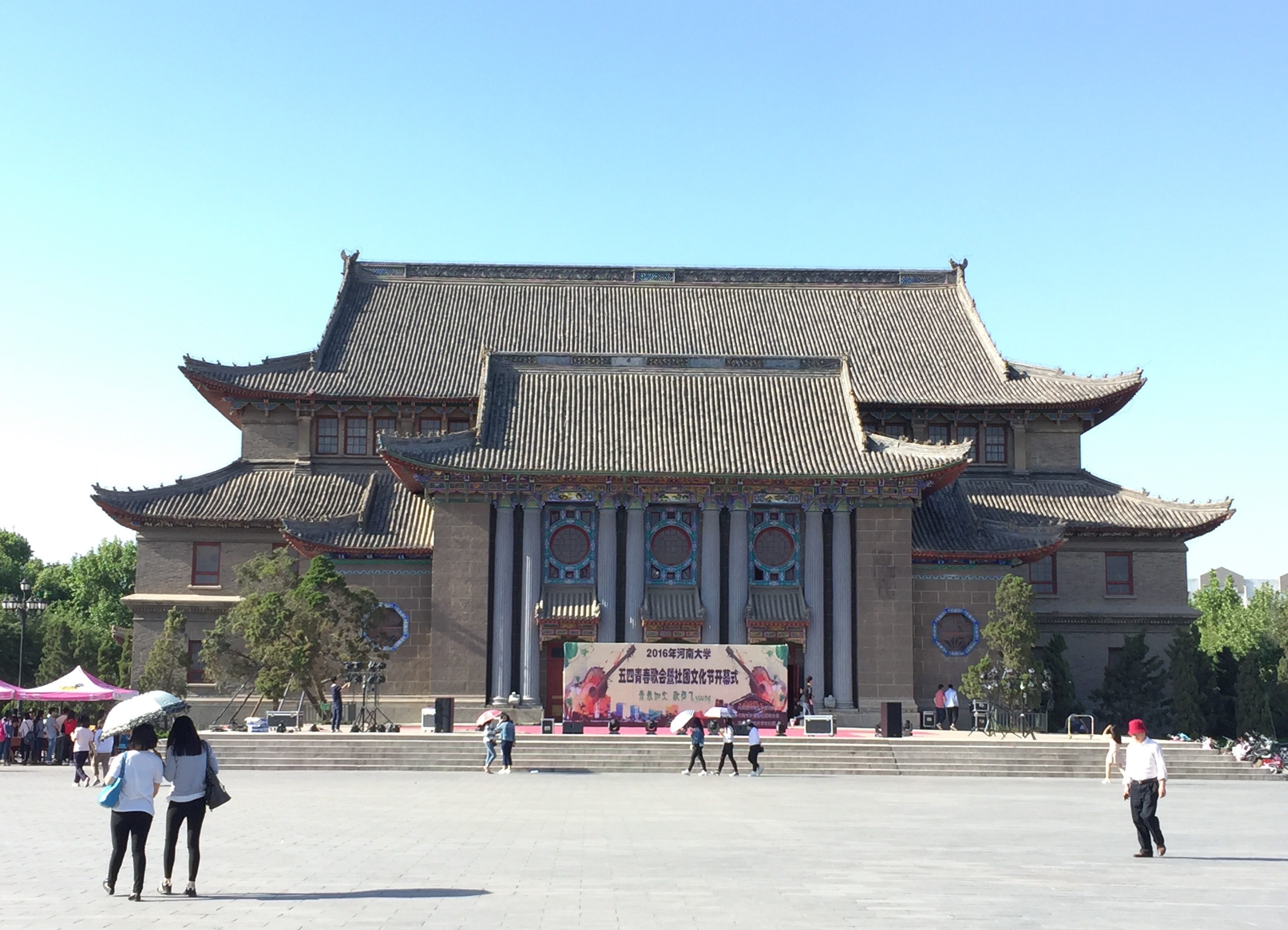 one of the oldest buildings in HENU